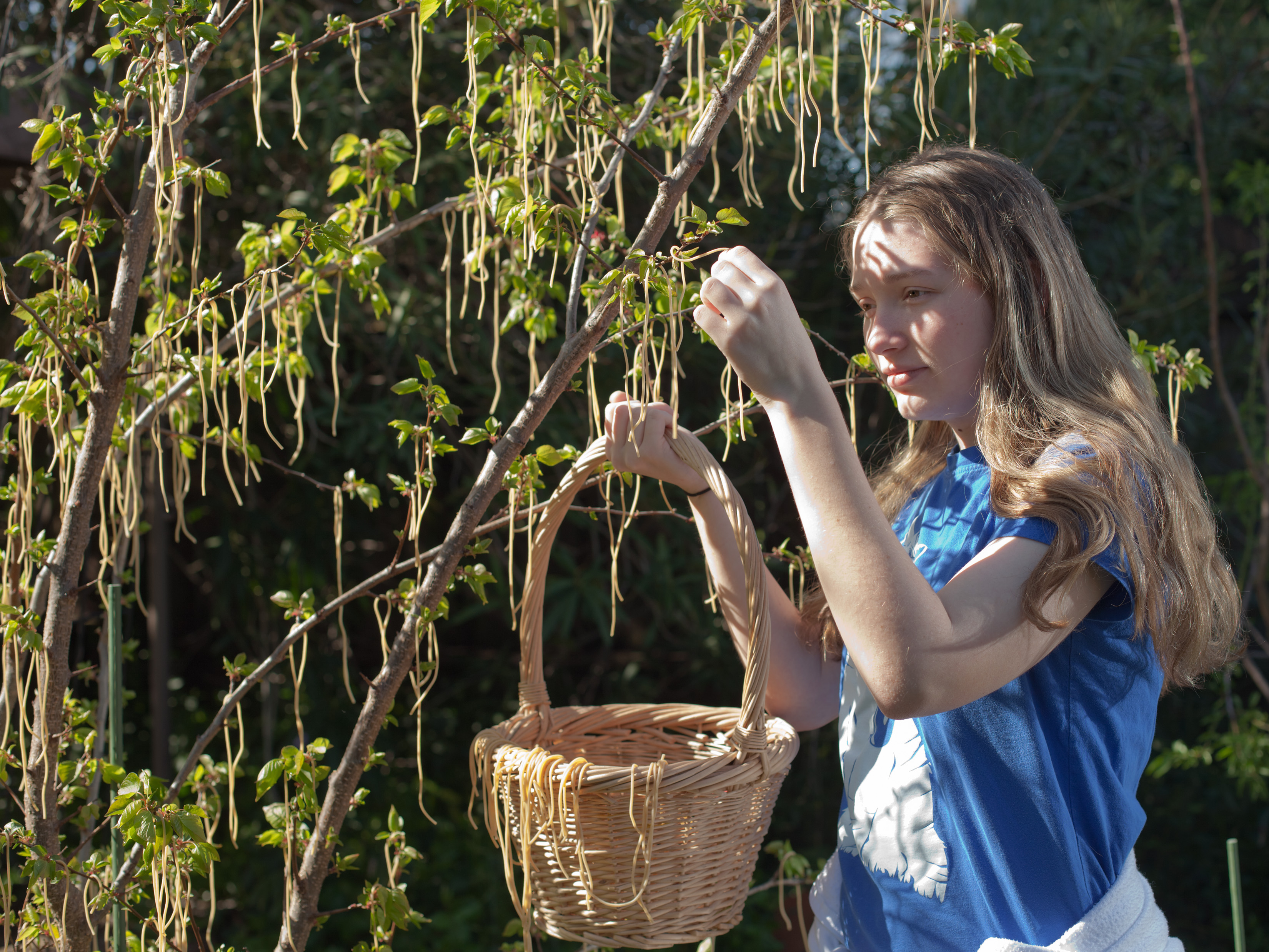 With the unusually mild winter, we were able to have our first harvest of spaghetti this morning. Seriously, there’s nothing like spaghetti fresh off the tree! Northern California’s spaghetti is a legacy of the Swiss-Italians who settled the San Francisco Bay Area in the late19th century, operating dairy ranches and vineyards. Naturally, when they came to California, these pioneers brought their beloved spaghetti. The most common vinestock of Spaghetti trees in Northern California, (Iocari stultus var. flicrus ), traces its lineage to the shores of Lake Lugano in the southern Swiss canton of Ticino. This bountiful tree was first planted here in the early 1890s during the founding of the Italian Swiss Colony in Sonoma County. Last year’s cold, frosty winter mostly left us with capellini and spaghettini, if spring continues like this, we might even see Vermicelli before summer! We’re quite happy for the joy our little tree provides every year at this time.